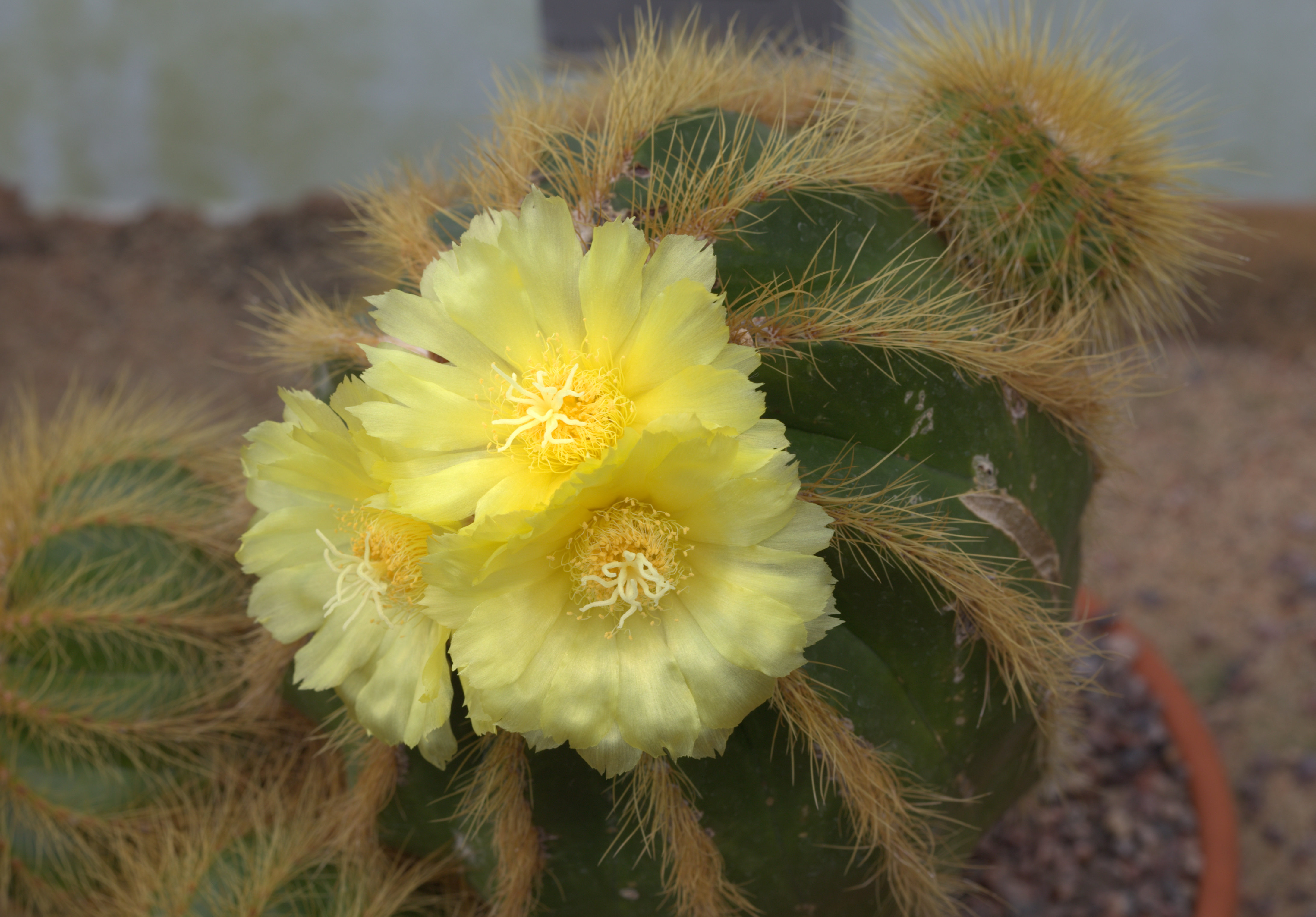 Parodia warasii in Gothenburg botanical garden. Plant id: 2007-2503 p G -- Babaiy